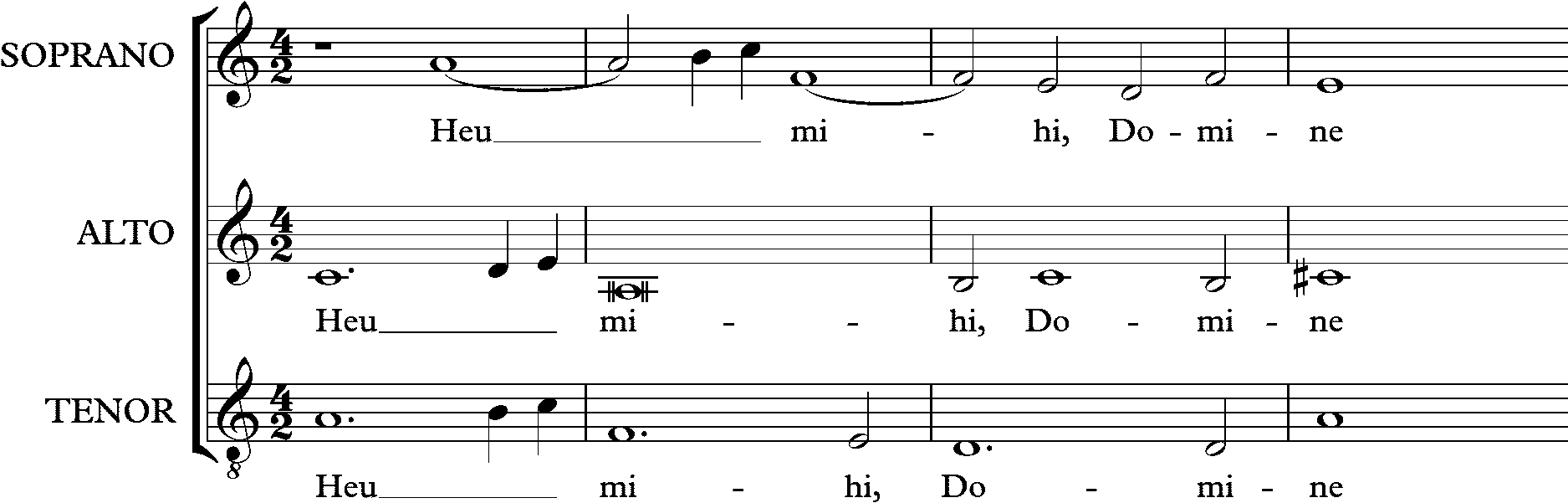 Schutz Heu mihi, Domine from Cantiones Sacrae